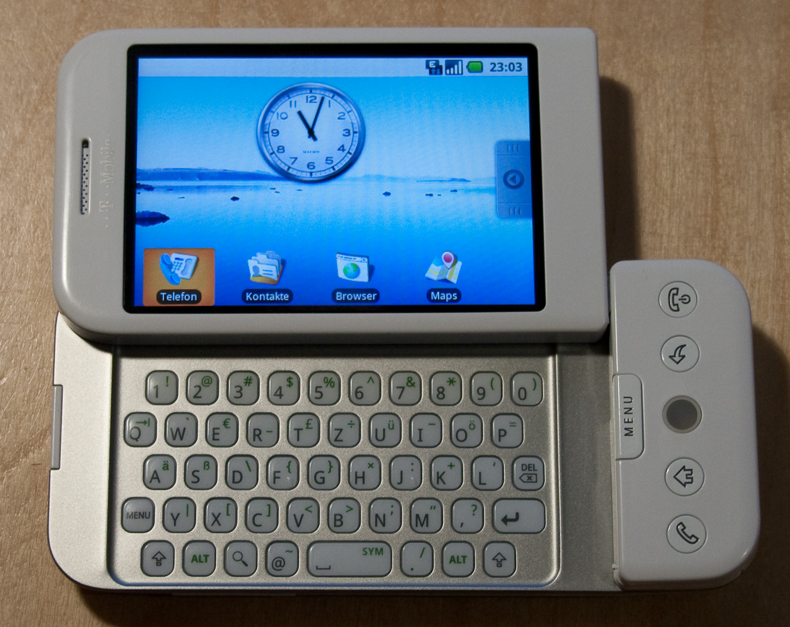 HTC Dream (white) opened